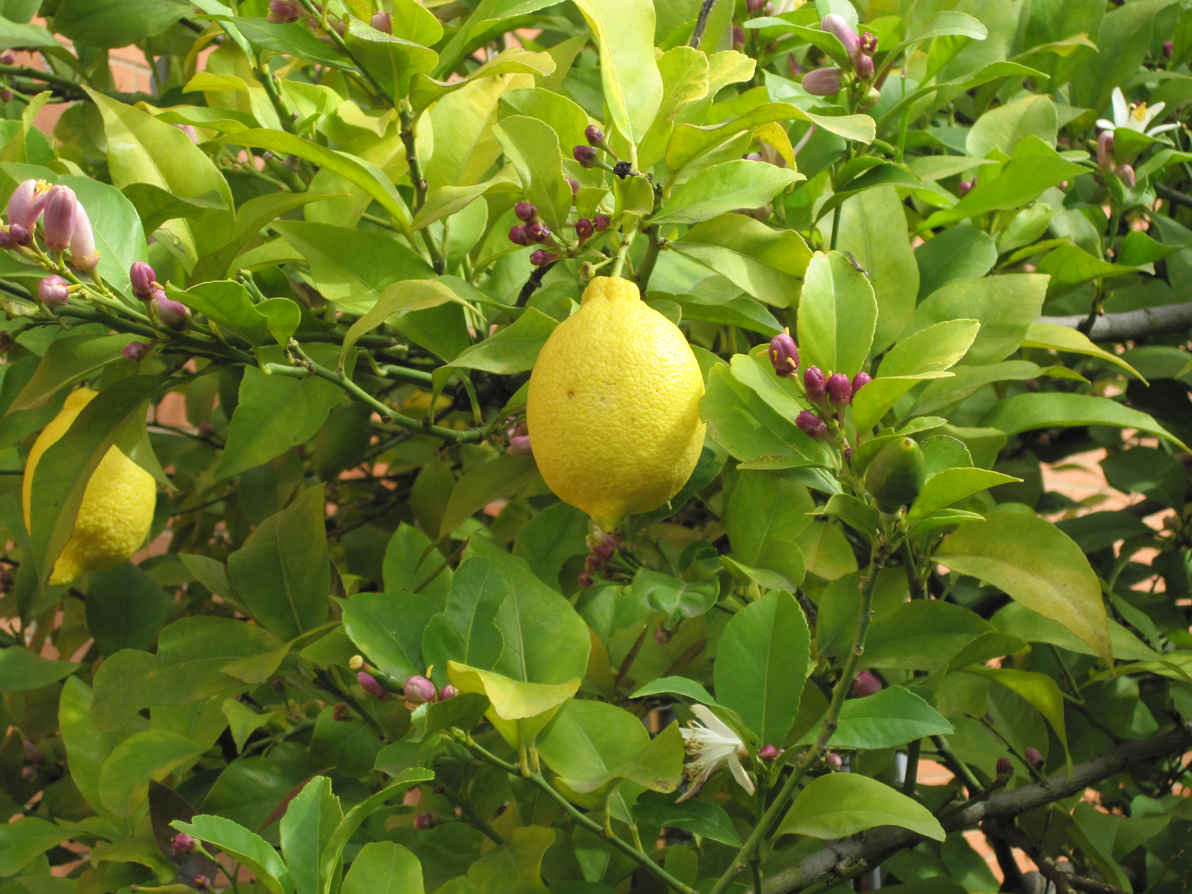 Buds, flowers and lemon fruits